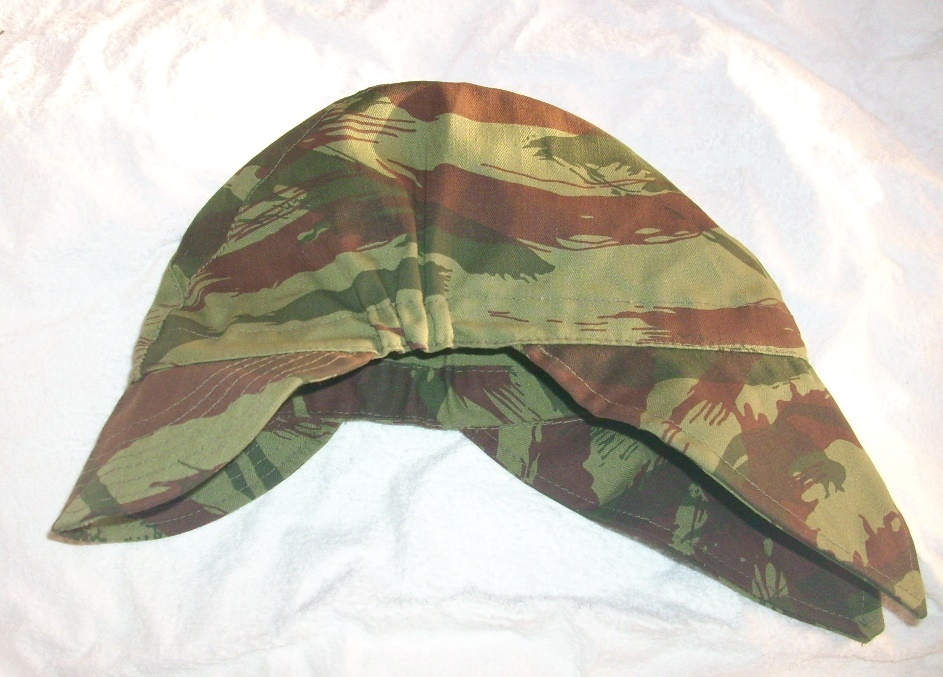 Portuguese field cap (quico) in lizard pattern (lagarto)